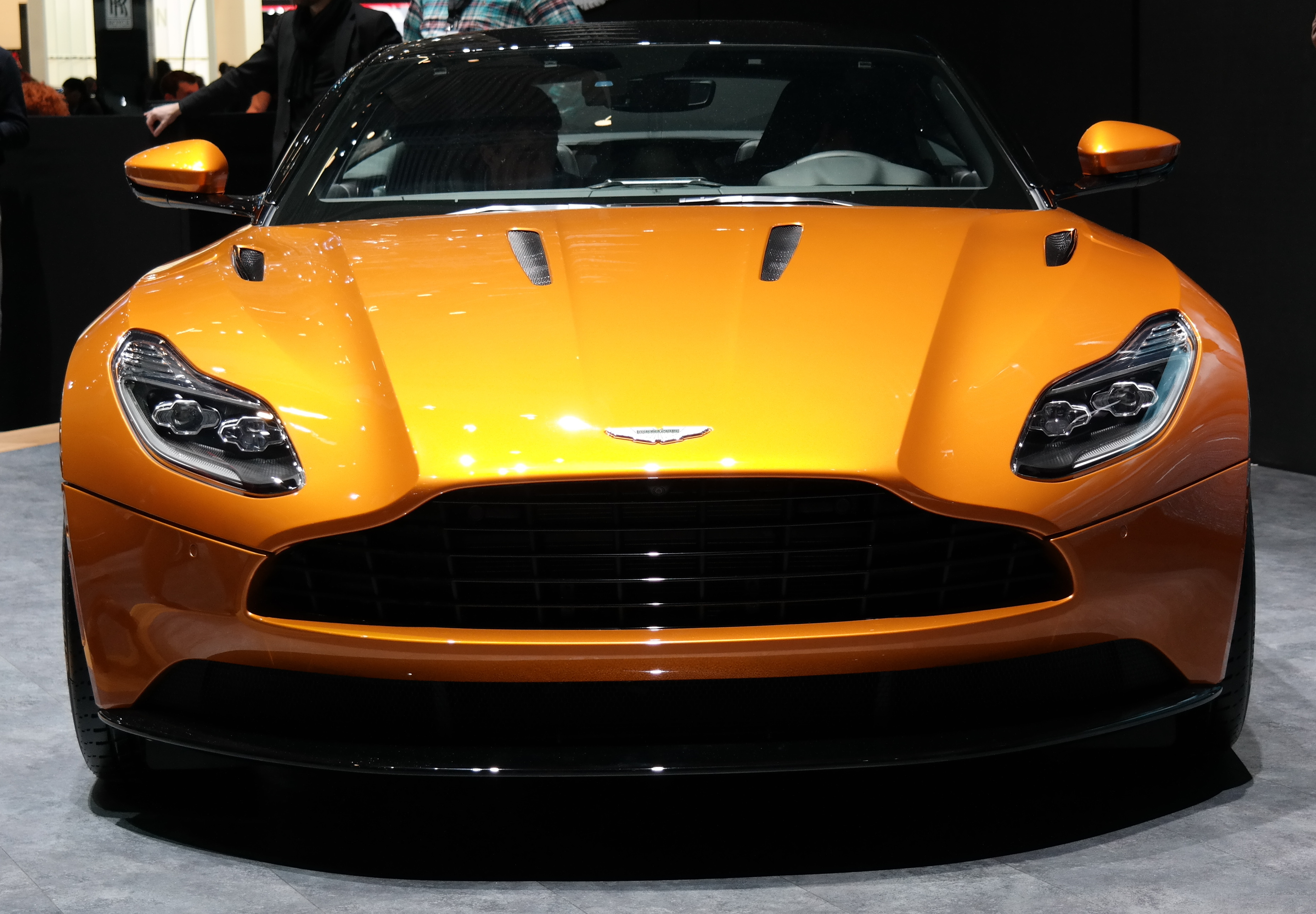 Geneva Motor Show 2016 (photo taken on the first press day)